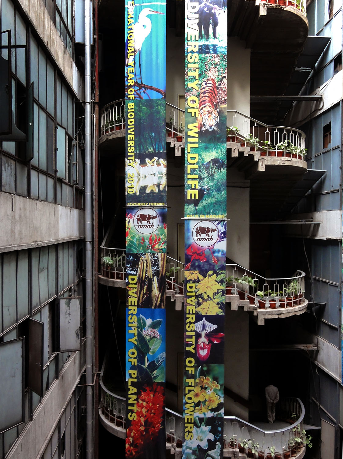 Atrium inside the National Museum of Natural History, Government of India.